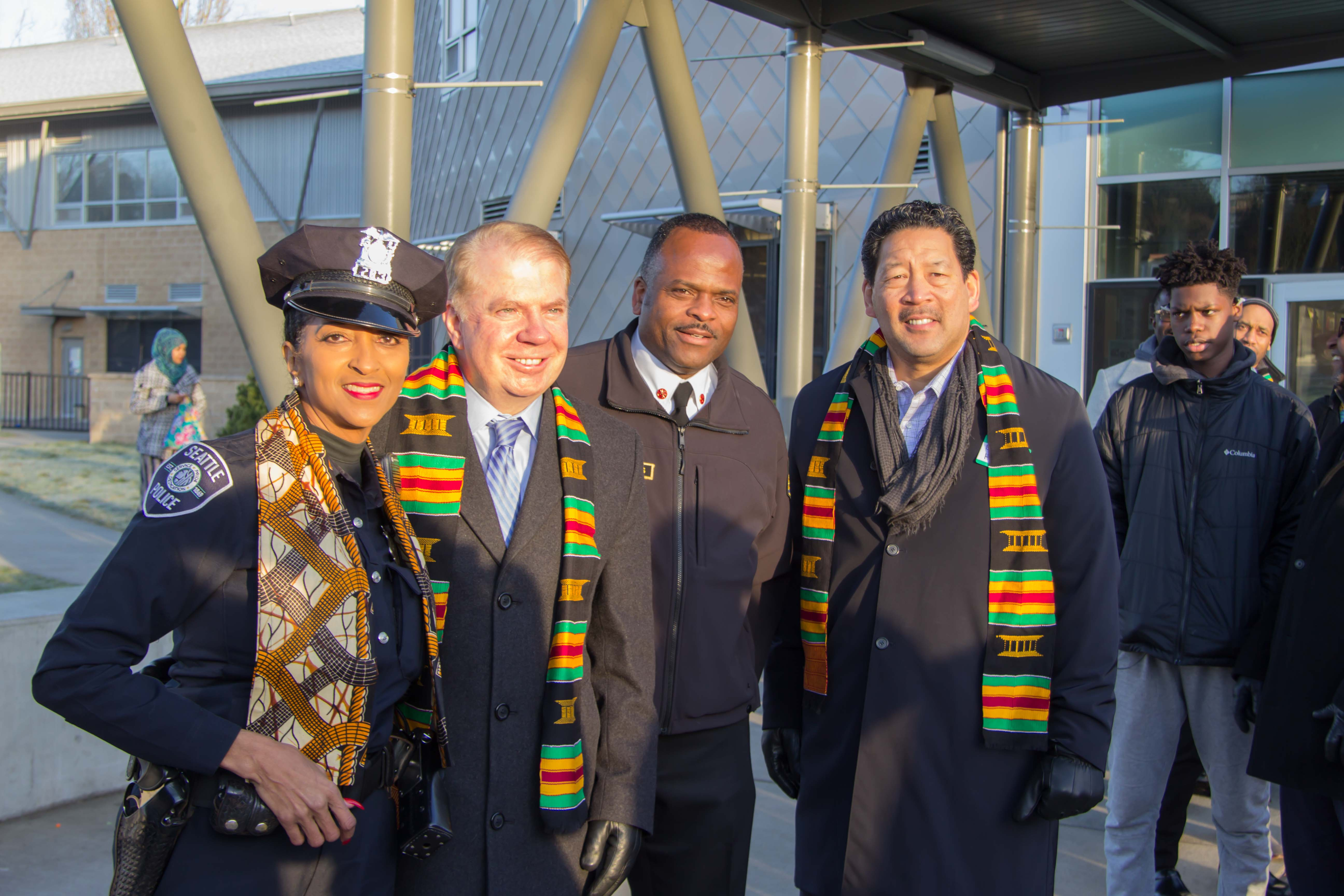 Council President Bruce Harrell joined black leaders at South Shore K-8 School to greet/high-five students, and let them know they have an entire community of support behind them